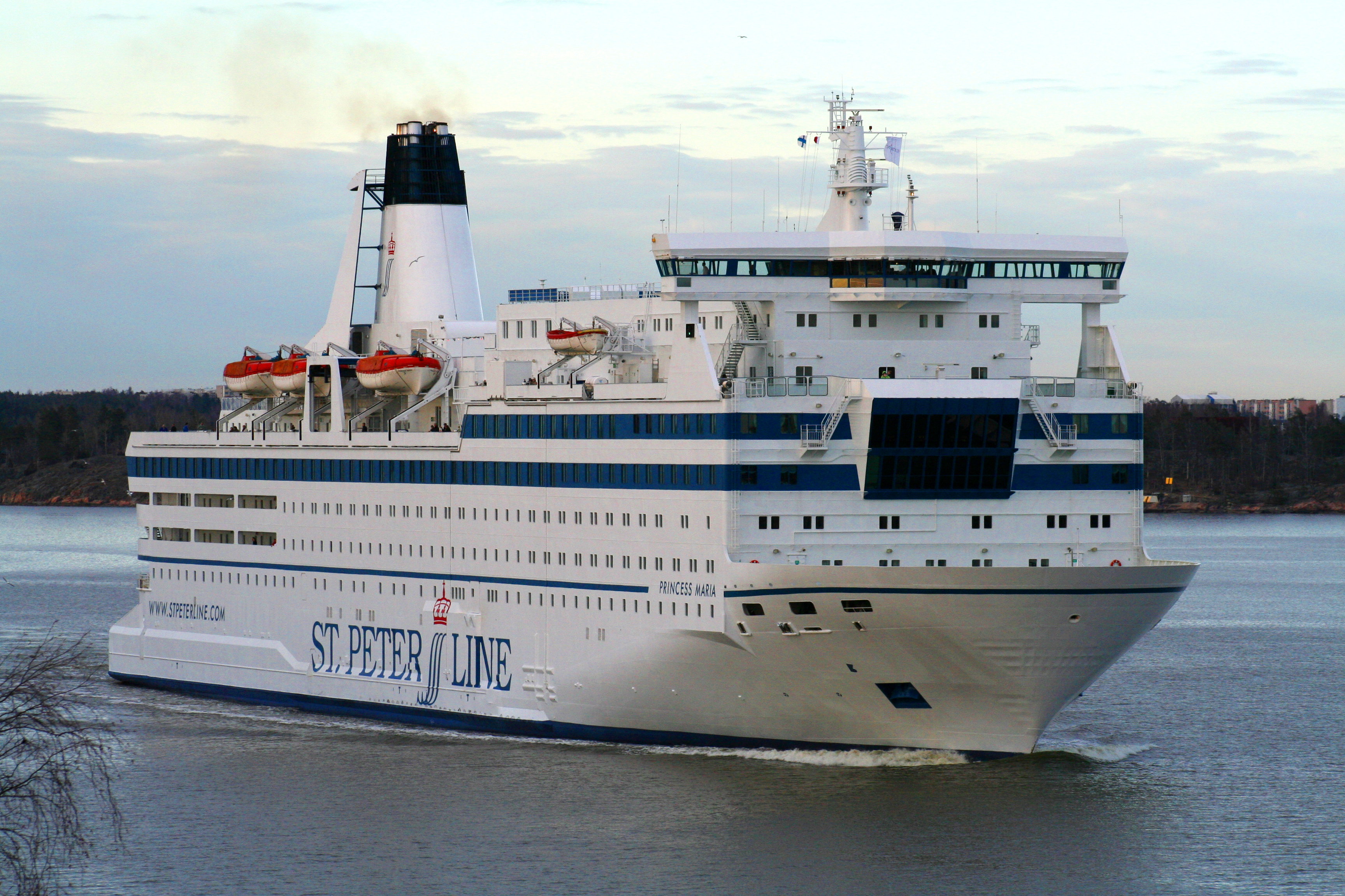 St. Peter Line's cruiseferry MS Princess Maria at Kustaanmiekka strait outside Helsinki, Finland on her third departure from Helsinki.